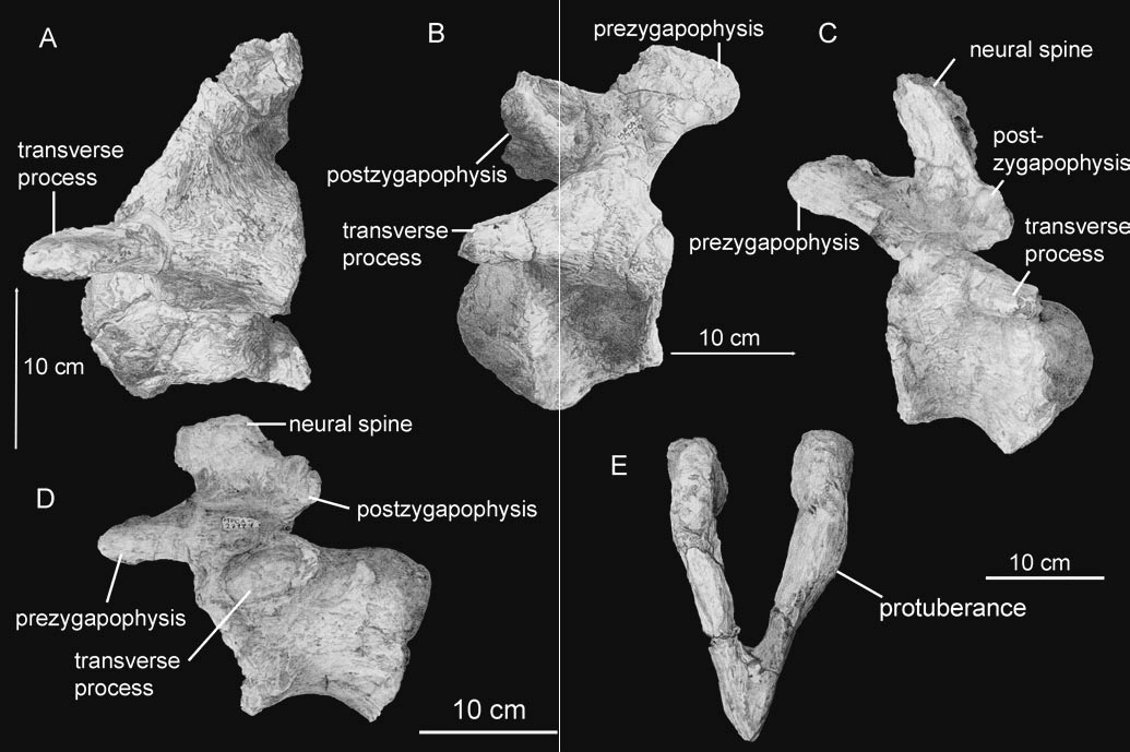 Aeolosaurus sp. MPCA-Pv 27174. A, first ? anterior caudal vertebrae in right lateral view. B, third ? anterior caudal vertebrate in right lateral view. C, fifth ? anterior caudal vertebrae in left lateral view. D, tenth ? anterior caudal vertebrae in left lateral view. E, haemal arch in anterior view.